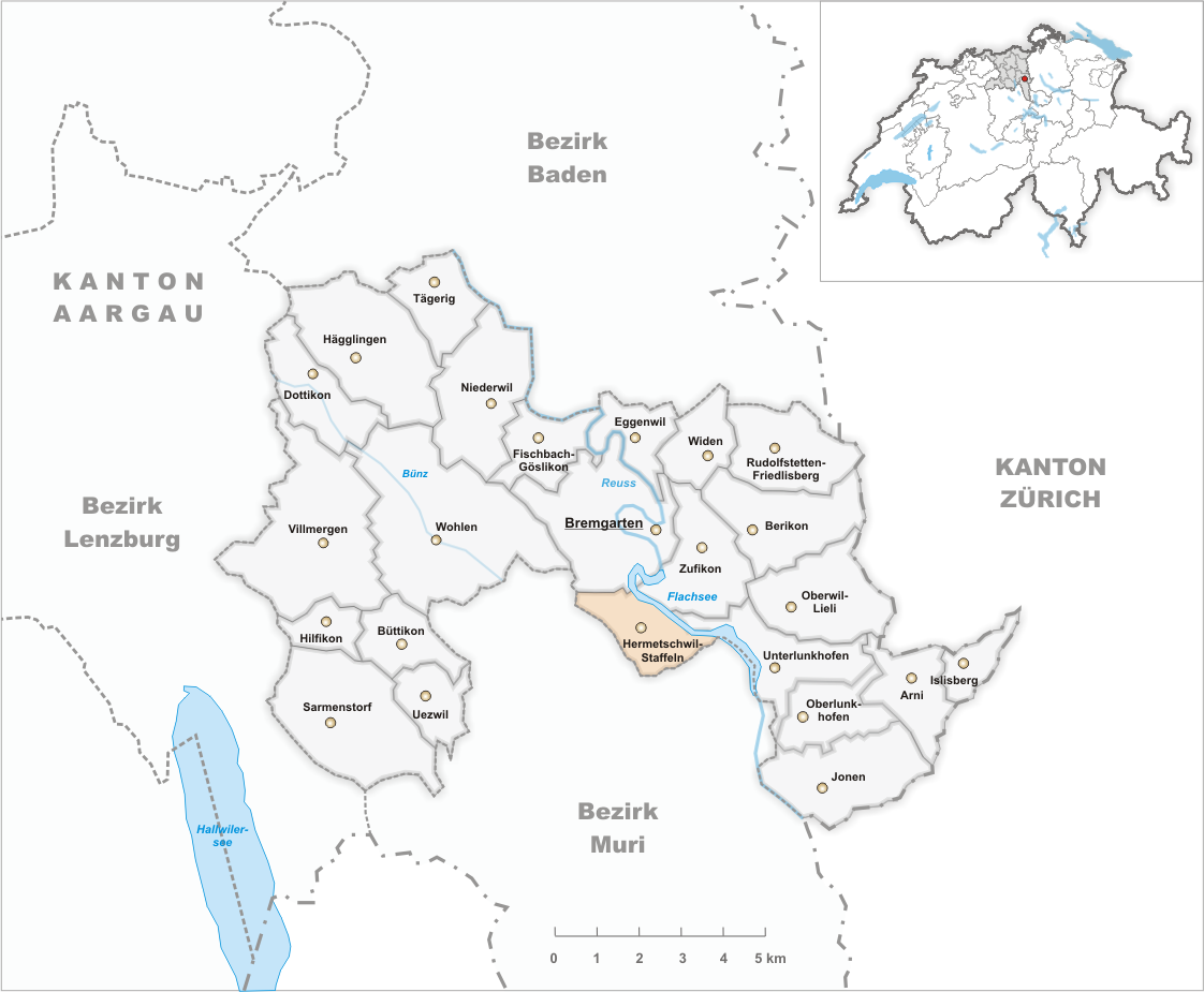 Municipality Hermetschwil-Staffeln